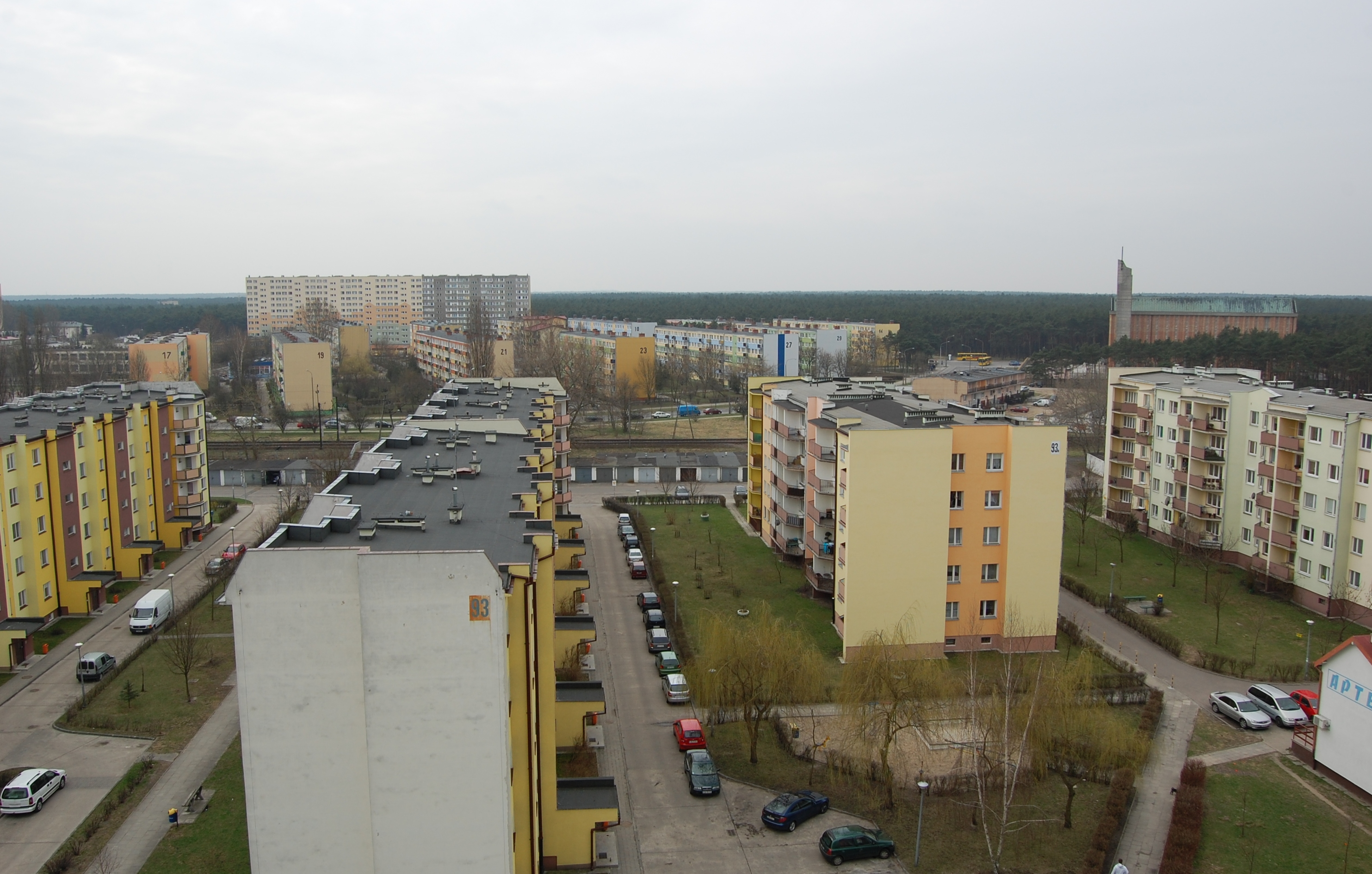 Zazamcze, Włocławek, Poland